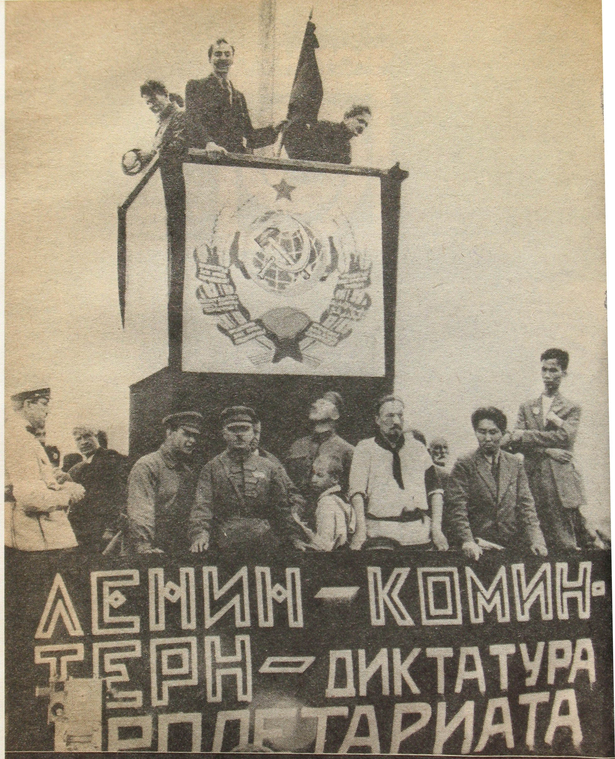 Soviet politicians in 1927. Comintern meeting on Khodynka field Moscow. In the image are visible: Kliment Voroshilov, Nikolai Ilych Podvoysky, Mikhail Semyonovich Tchudov and Mikhail Kalinin. The person far right is maybe Ho Chi Minh.